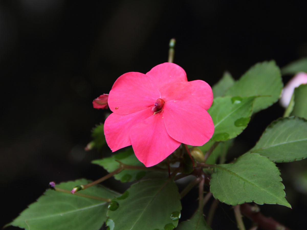 I have ovate to elliptic leaves which are light green to dark green, sometimes with a bronze-red cast.[1]Being perennial in frost-free growing conditions,I prefer living temperature between 59℉ and 77℉,while avoiding high temperature as much as possible.